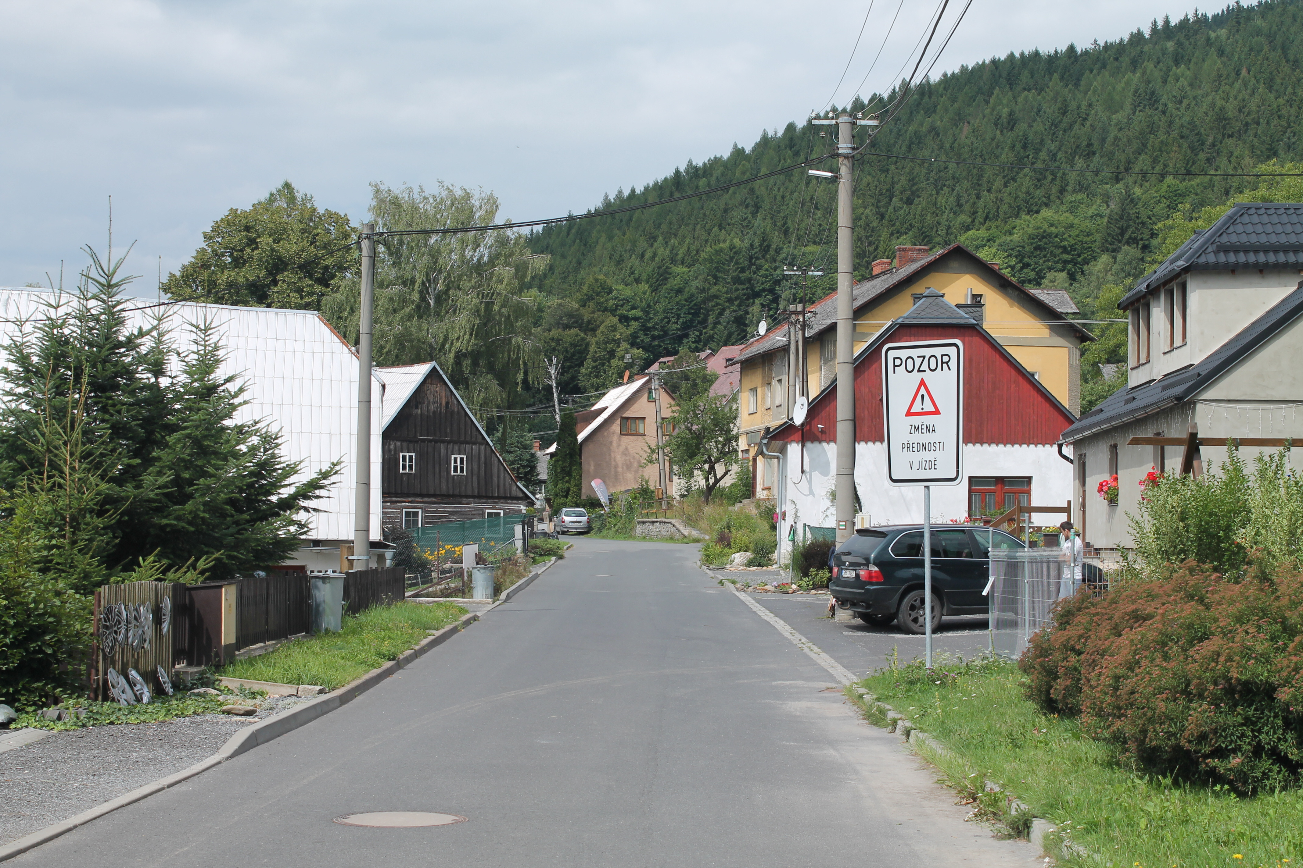 Železná, Vrbno pod Pradědem, Bruntál District, Czech Republic